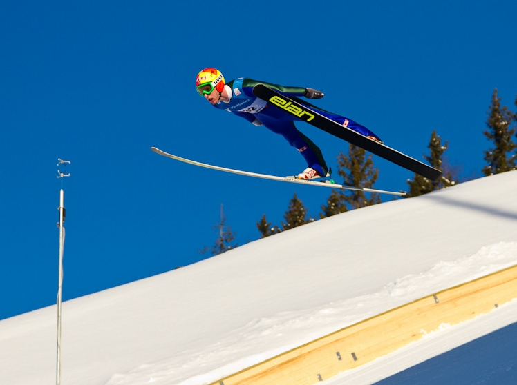 Johan Remen Evensen - the new holder of the world record of 246,5 meters